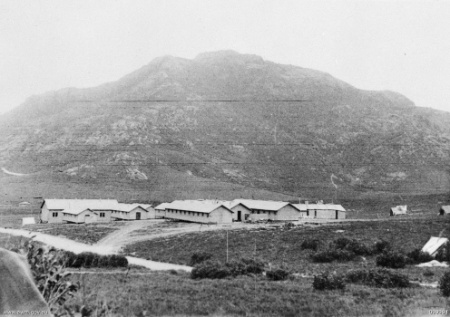 FOSTER, VICTORIA, 1942-01/04. THE ADMINISTRATIVE BUILDINGS AT THE CAMP OF 2/5TH INDEPENDENT COMPANY, WHERE THE EARLY TRAINING OF THE COMPANY TOOK PLACE. MOUNT OBERON, IN THE BACKGROUND, WAS USED BY THE COMPANY AS PART OF ITS PHYSICAL TRAINING COURSE. (099994)